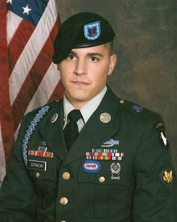 Specialist Ryan A. Conklin